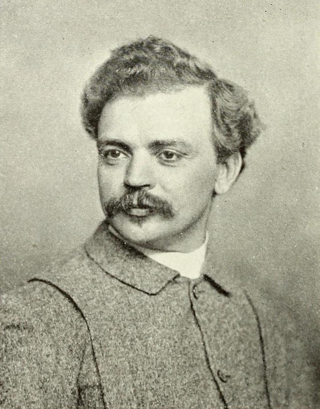 Photograph of Samuel James Kitson, which appeared in Massachusetts of Today, a book issued for the World's Columbian Exposition